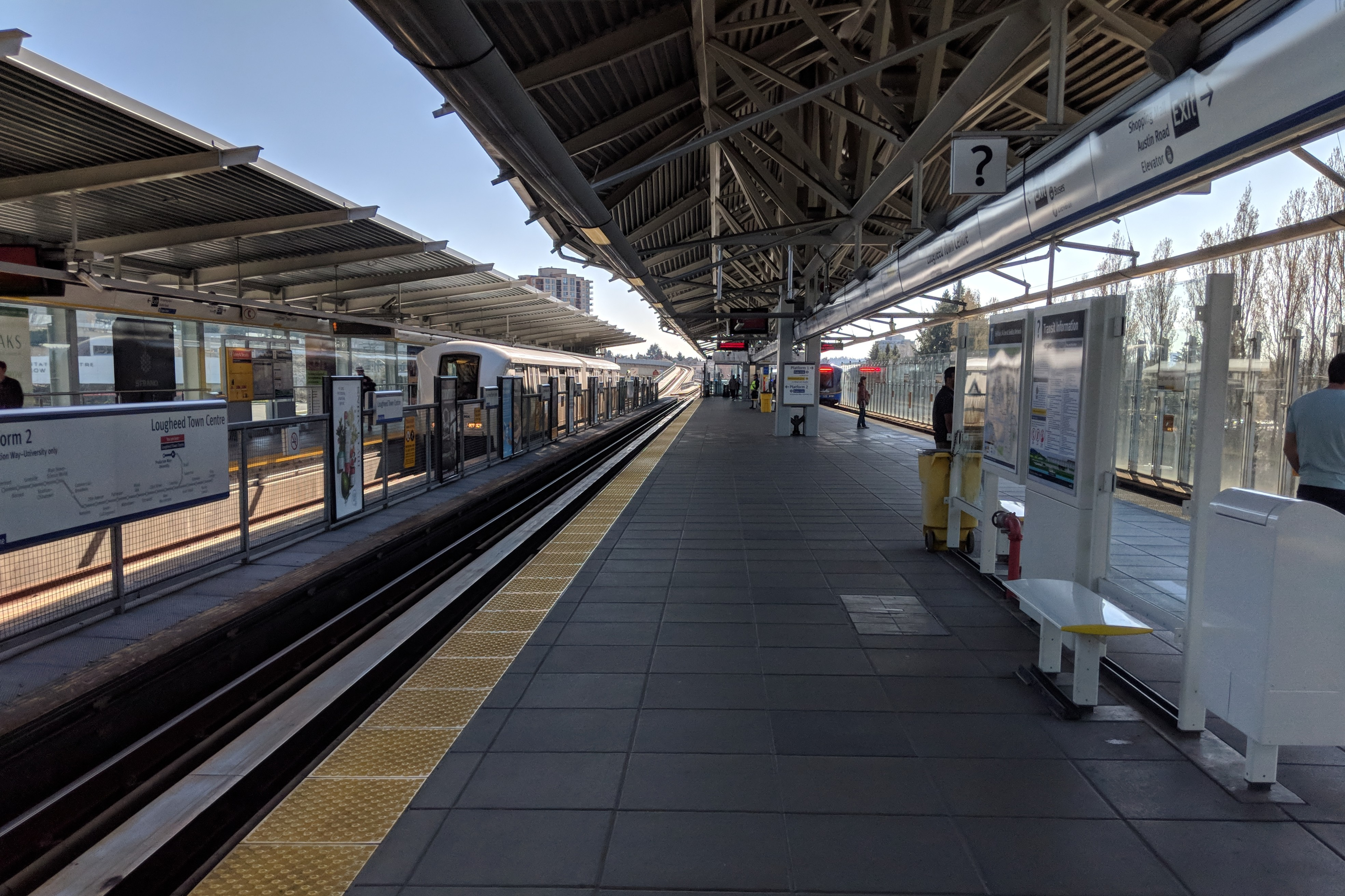 Platform level at Lougheed Town Centre station. From right to left; platforms 1 to 3. Platform 1 is shared by both Expo and Millennium lines; with the Expo Line operating inbound services, and the Millennium Line operating outbound service. Platform 2 is for outbound Expo Line services. Platform 3 is for inbound Millennium Line service.